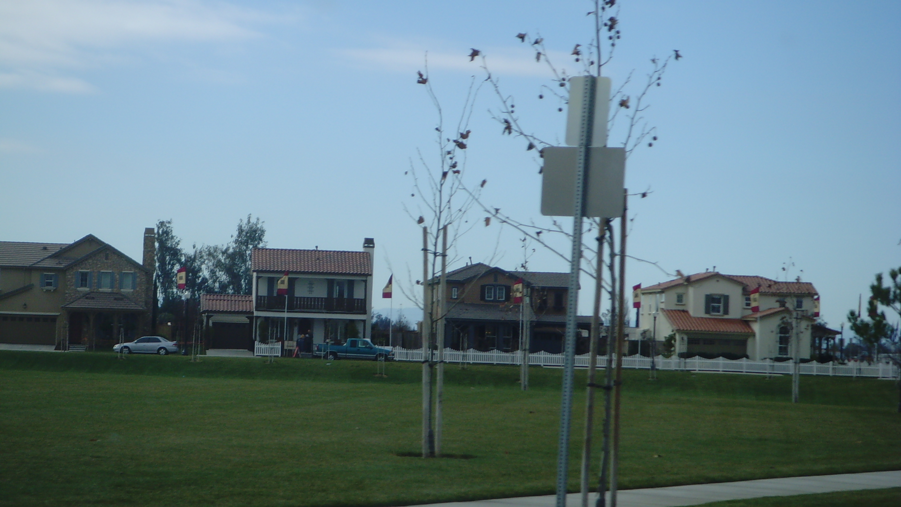 New Homes